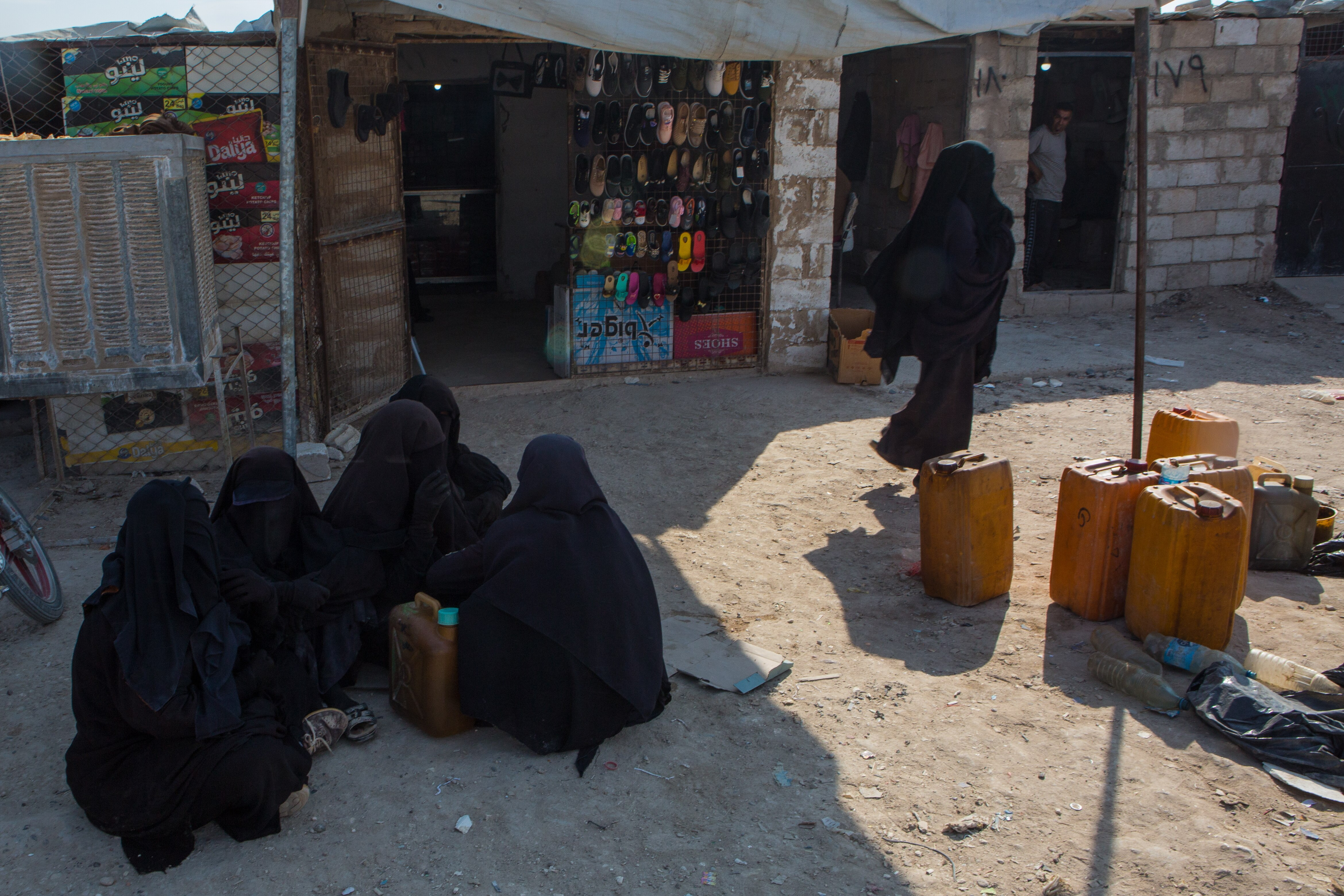 We are the first reporters inside the al-Hol Camp since Turkish military operations began in northeastern Syria last week. Officials say since the conflict began, the camp, which houses 71,000 people, has become "out of control." Many women in the al-Hol camp are hostile to foreign journalists and security guards, while others fear the extremists’ wrath, Oct. 16, 2019. (Y. Boechat/VOA)